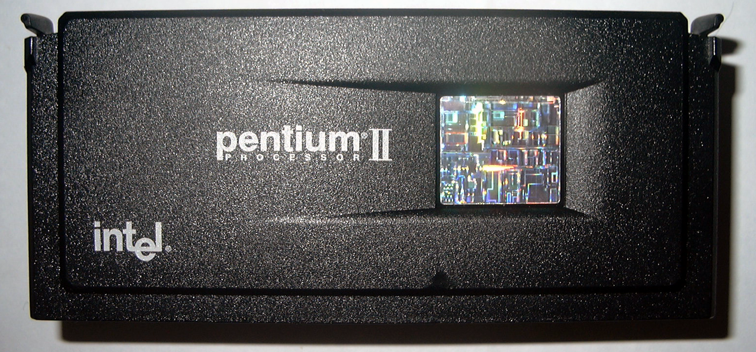 Intel Pentium II 266 MHz processor (Klamath series)